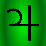 Astrological simbol of jupiter. Own work